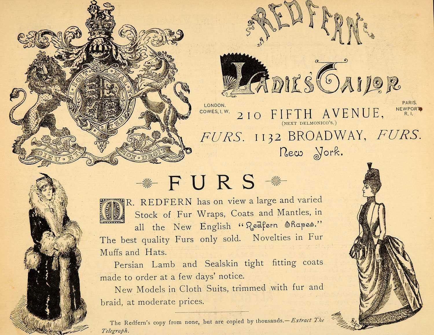 Redfern Ladies' Tailor, furs, New York, 1885 advertisement. 210 Fifth Avenue, 1132 Broadway.